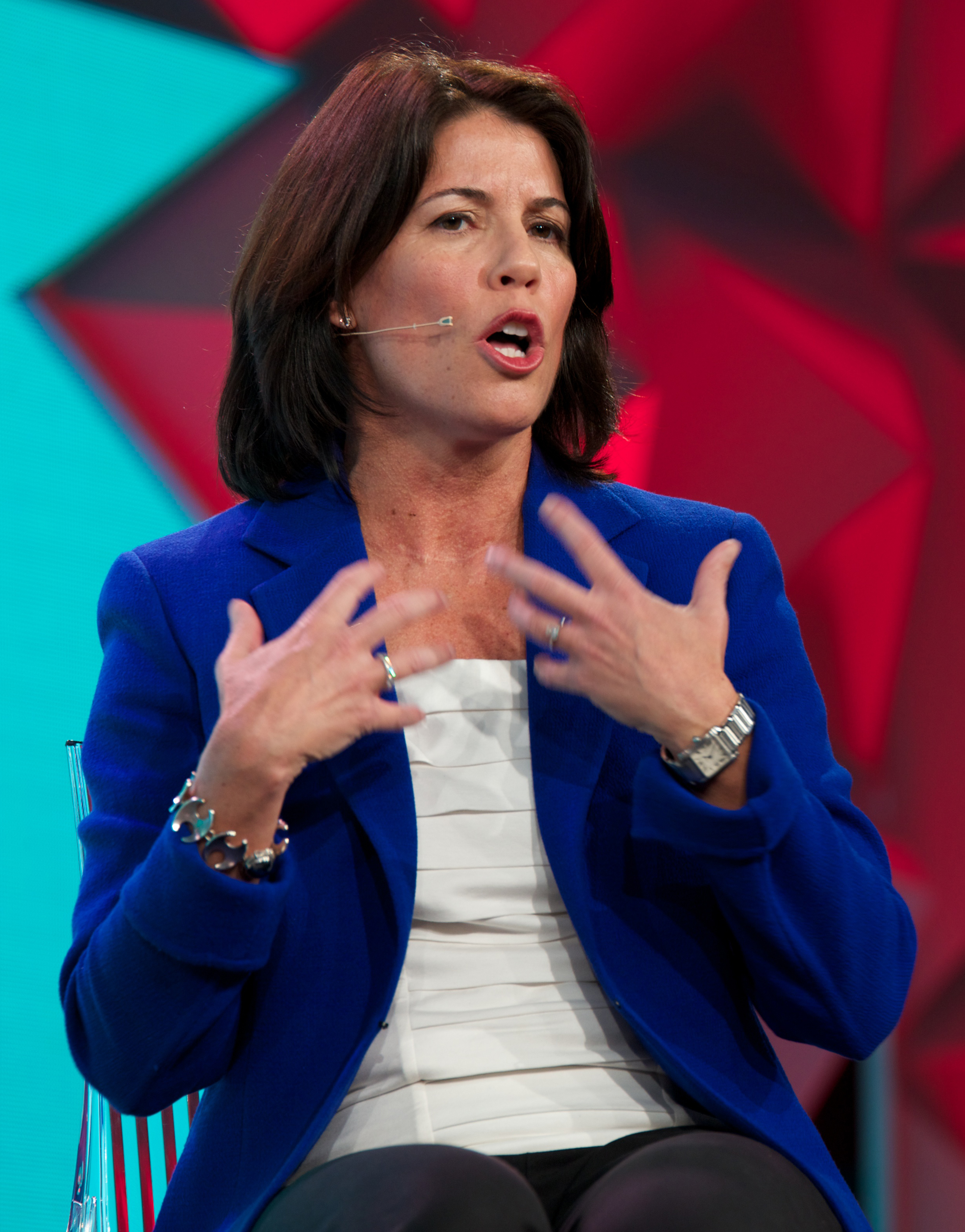 Helena Foulkes, EVP CVS Caremark & President CVS/Pharmacy